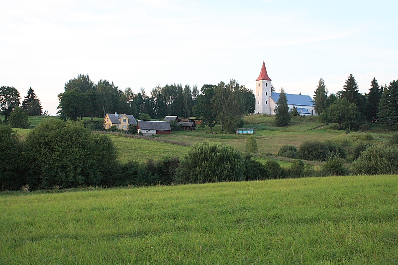 Maarja Church in Rõuge, Estonia